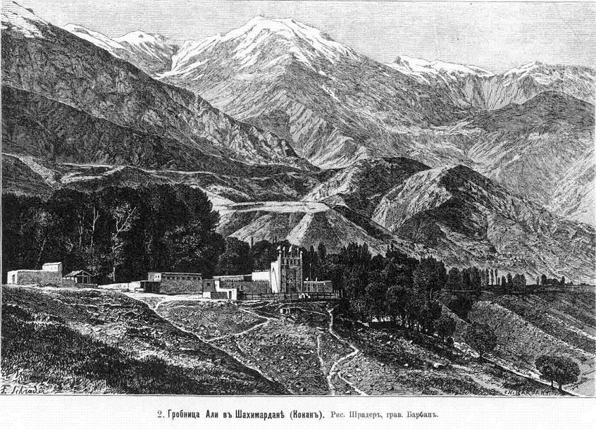 The Tomb of Ali at Shakhimardan, on the edge of the Ferghana Valley.